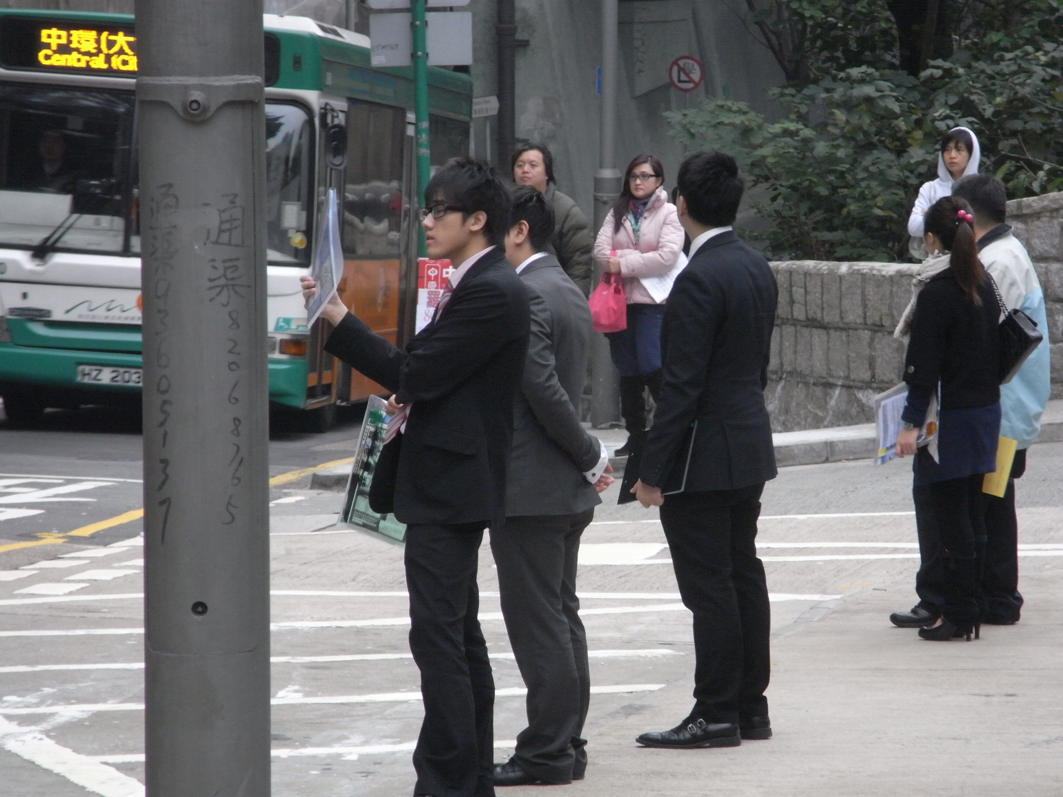 Hong Kong property agents at work with uniform 西裝